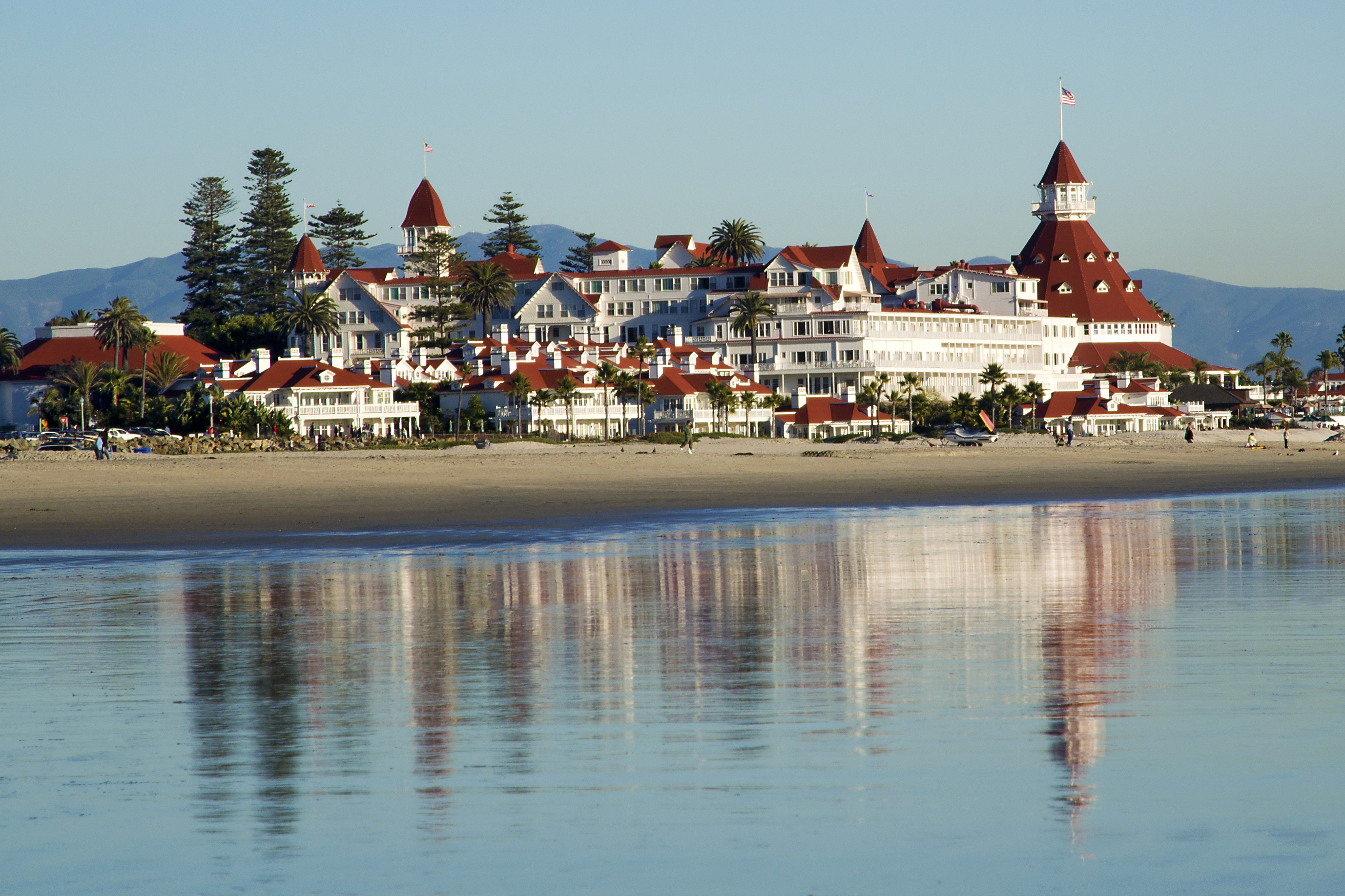 Coronado del Hotel from the beach Dec 23, 2011. San Diego California, late afternoon.